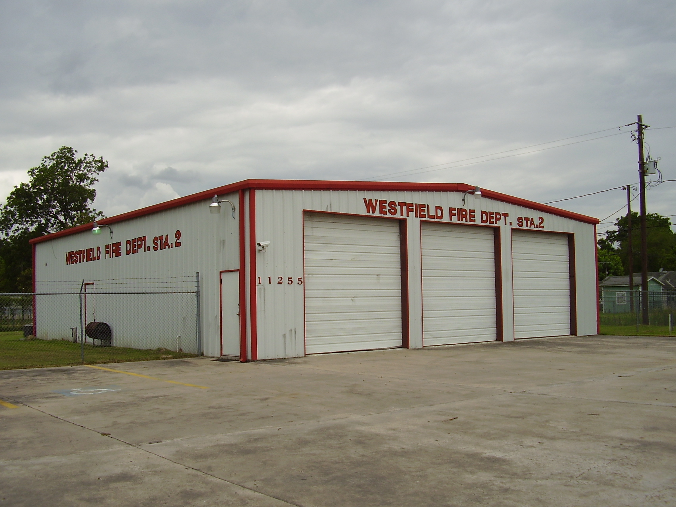 Westfield Fire Department Station 2 - Harris County, Texas